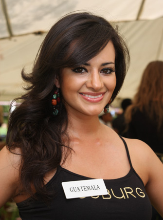 Miss Guatemala 2008 Maribel Arana during Miss World 08 in Johannesburg